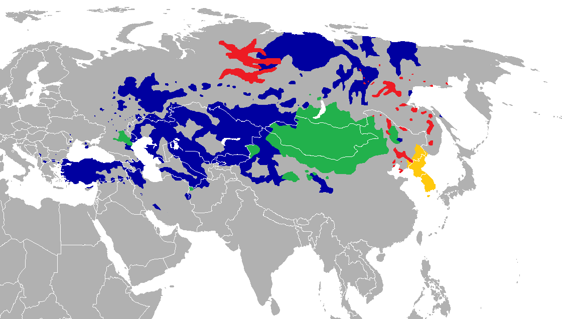 This map shows the distribution of the "Transeurasian languages". A language family based on the Altaic theory but built on newest linguistic knowledge (according to its supporters).